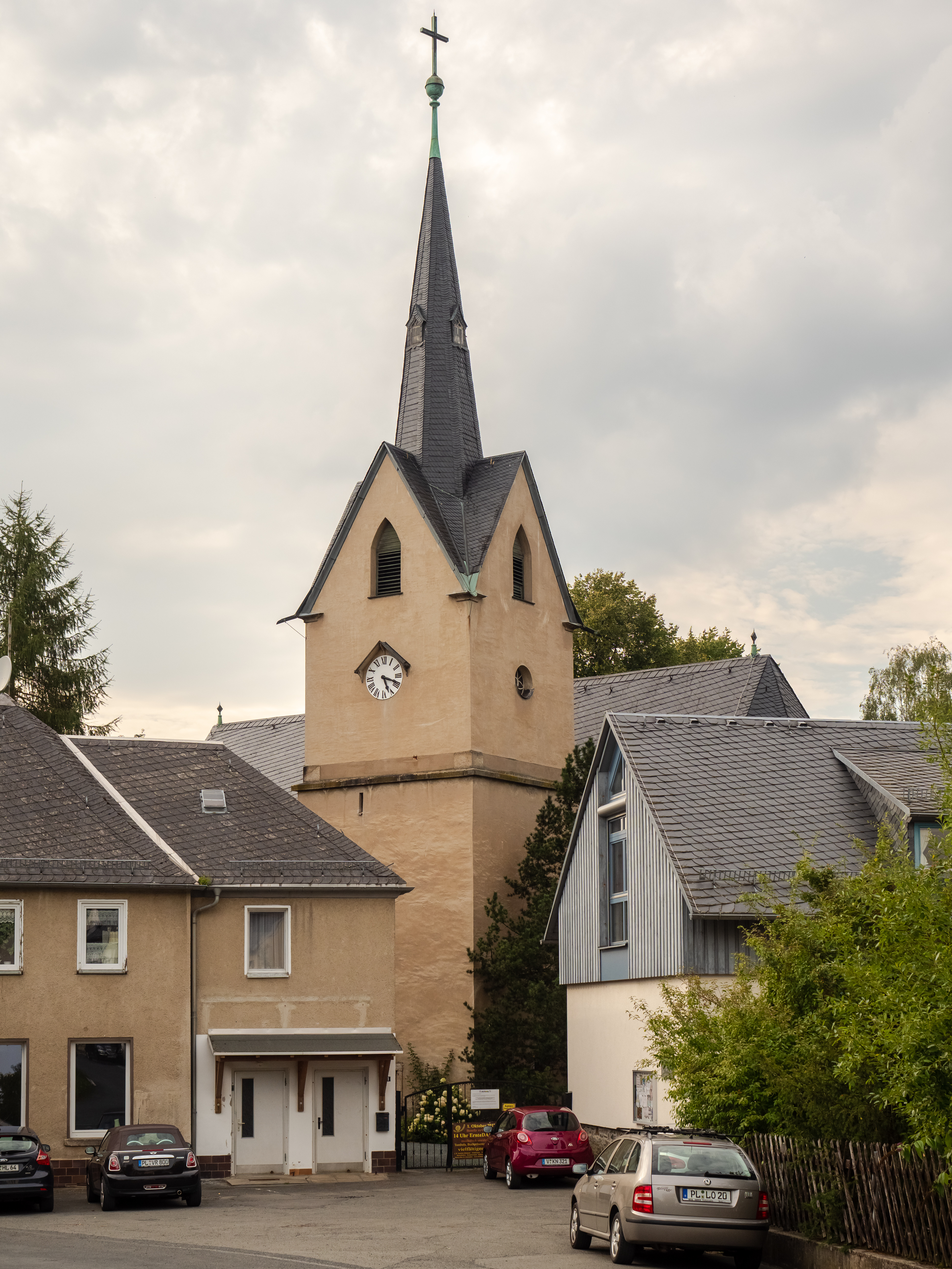 Protestant church in Altensalz in the Vogtland region